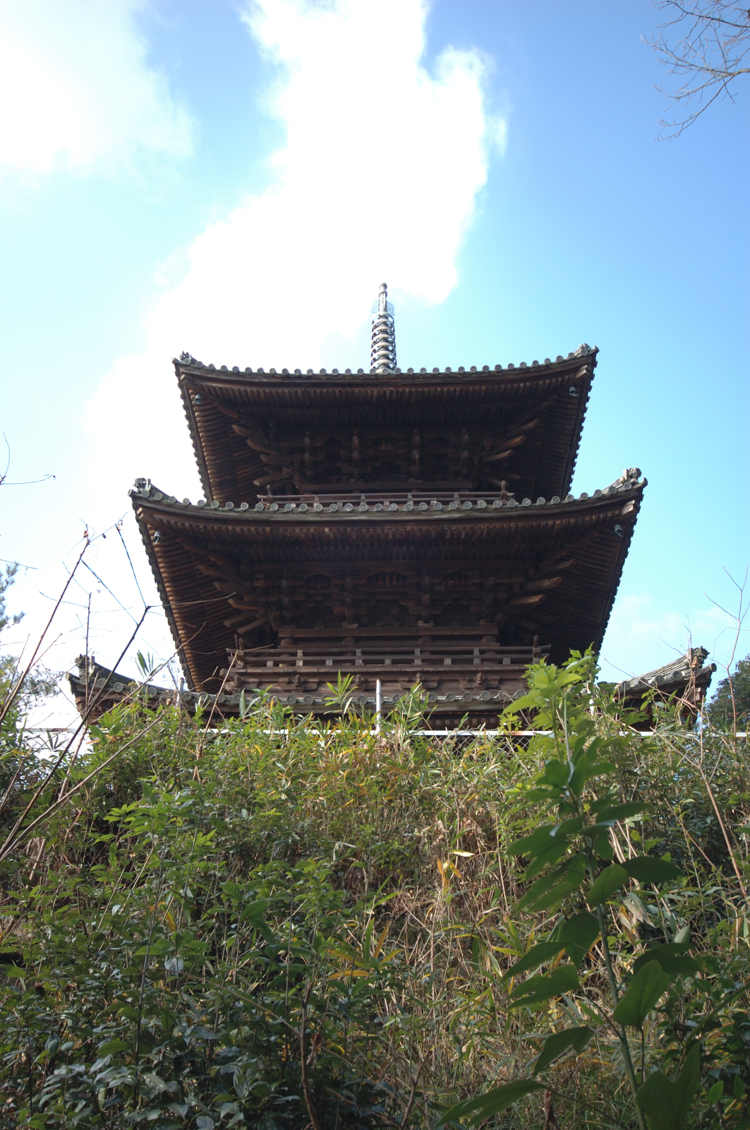 the three storied pagoda